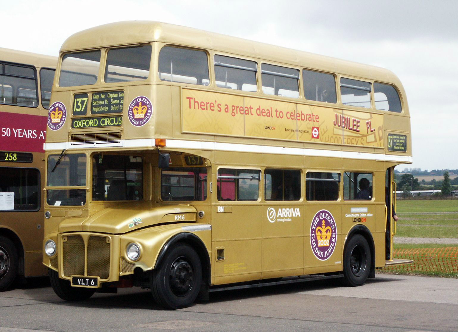 Arriva London South Routemaster bus RM6 (reg. VLT 6), pictured at the 2002 North Weald bus rally in its capacity as the Brixton garage (code BN) showbus, displaying blinds for one of its normal duties, Arriva operated route 137. It's wearing the special gold livery & jubilee logos applied a couple of months earlier to mark the Golden Jubilee of Elizabeth II.